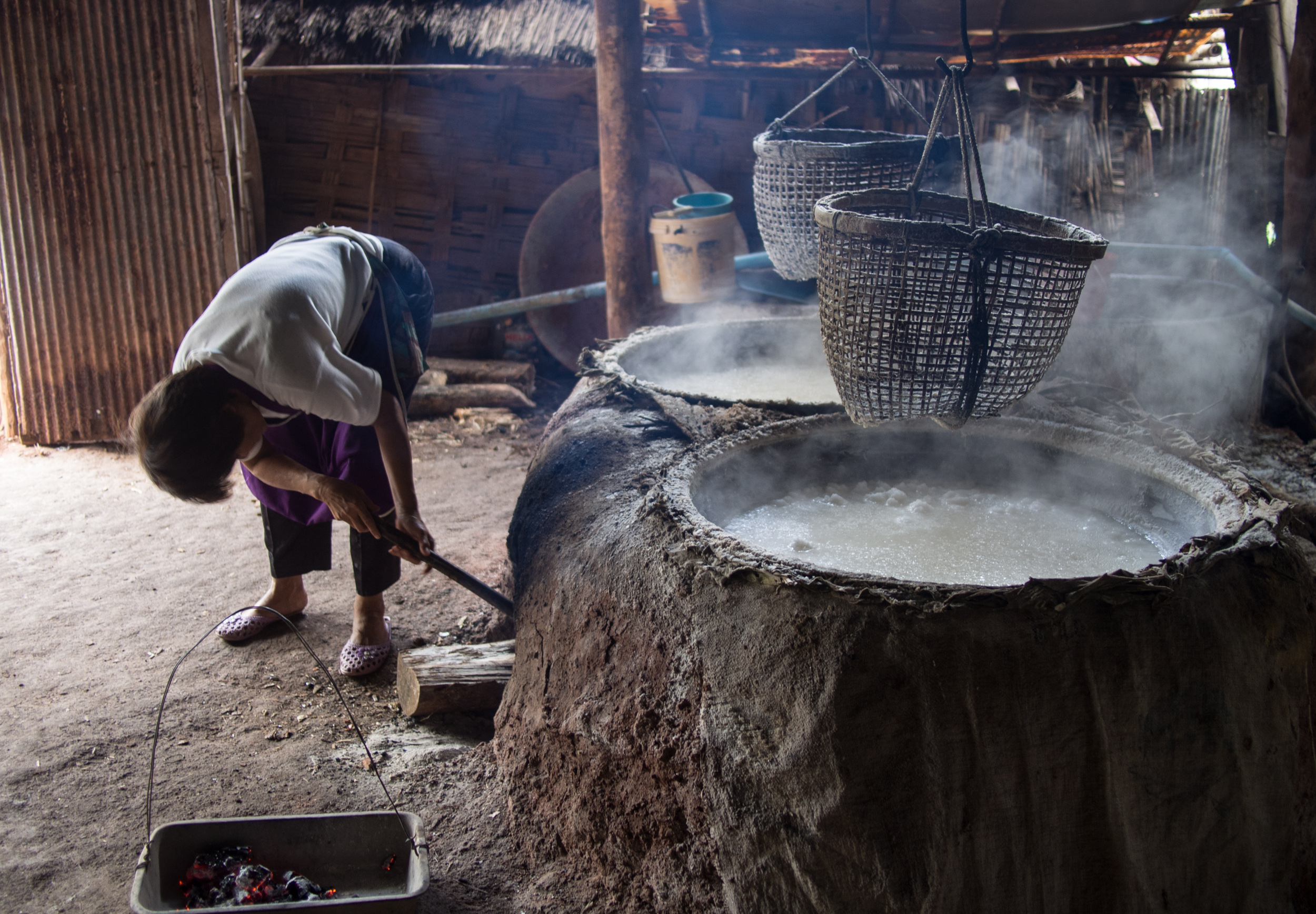 Open pan salt making in the town of Bo Kluea (Thai script: บ่อเกลือ; lit. "salt well"). Wood is used for fuel.